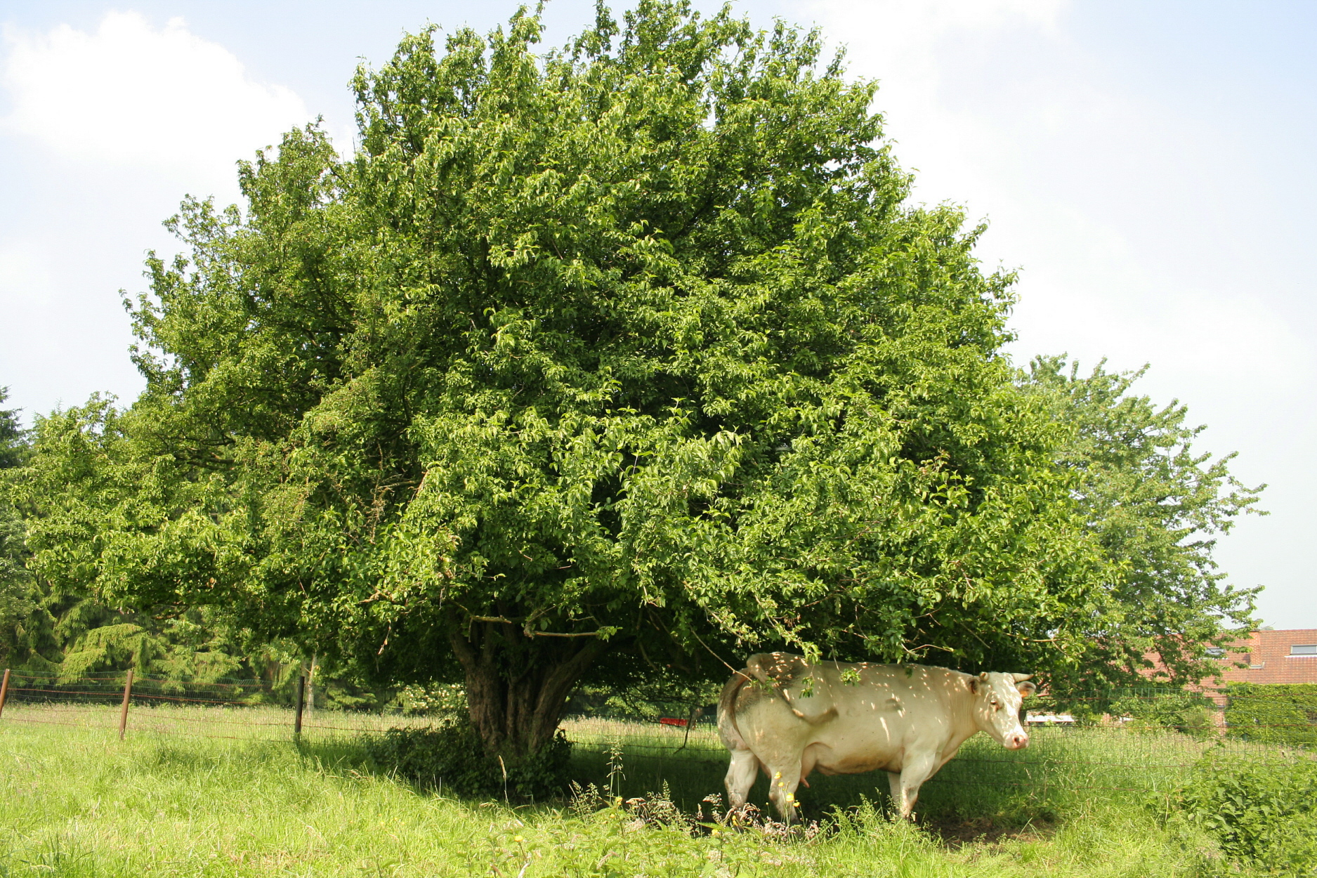 European Cornel or Cornelian-cherry.